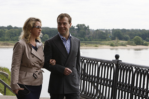 YAROSLAVL. Walking along the Volga embankment with Svetlana Medvedeva.